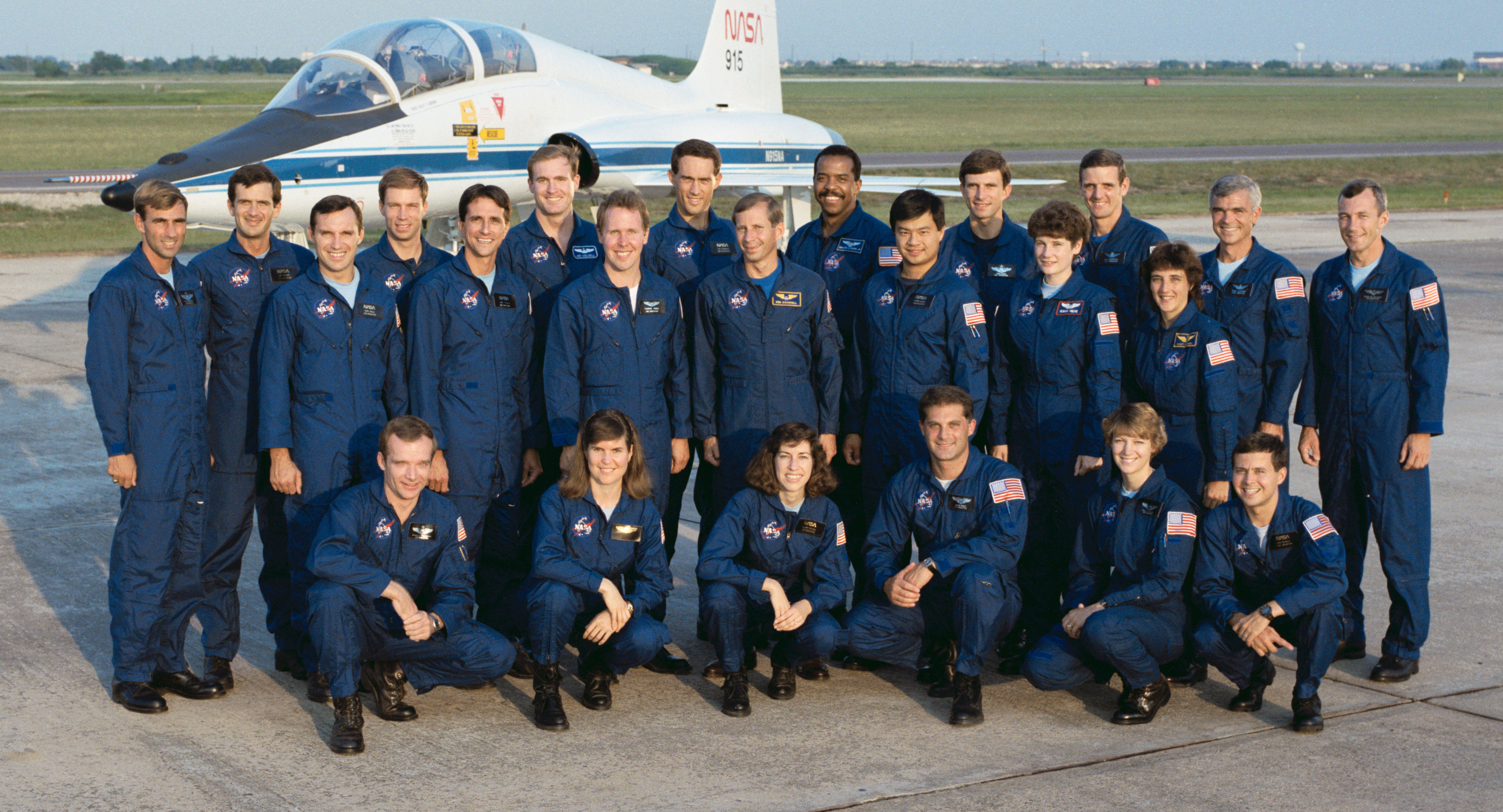 S90-47893 (11 Sept. 1990) --- These 18 men and five women make up NASA's 1990 class of astronaut candidates. Kneeling, left to right, are Charles J. Precourt, Janice E. Voss, Ellen Ochoa, David A. Wolf, Eileen M. Collins and Daniel W. Bursch. Standing, left to right, are William G. Gregory, Peter J. K. Wisoff, Carl E. Walz, Richard A. Searfoss, Donald A. Thomas, James D. Halsell Jr., Thomas D. Jones, James H. Newman, Kenneth D. Cockrell, Bernard A. Harris Jr., Leroy Chiao, Ronald M. Sega, Susan J. Helms, William S. McArthur Jr., Nancy J. Sherlock, Michael R. U. Clifford and Terrence W. Wilcutt.